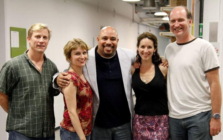 Ralph Remington with the cast of God of Carnage